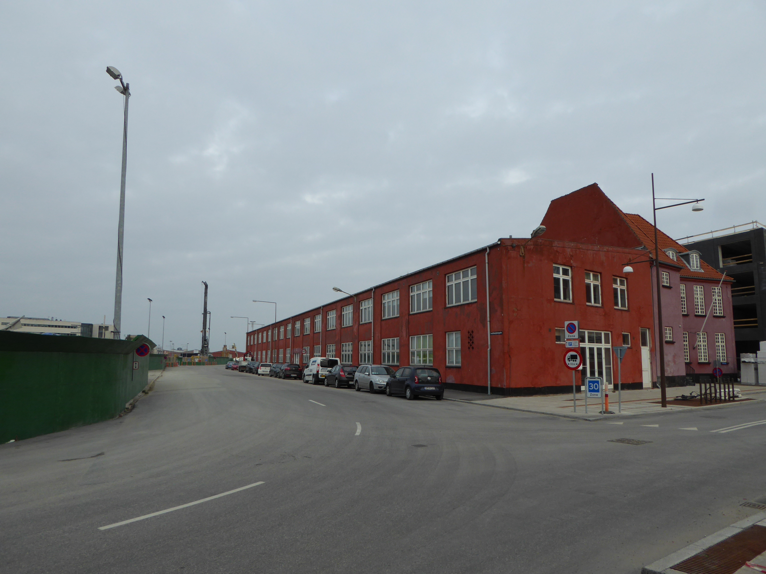 The street Southamptongade at Århusgade in Nordhavn in Copenhagen.